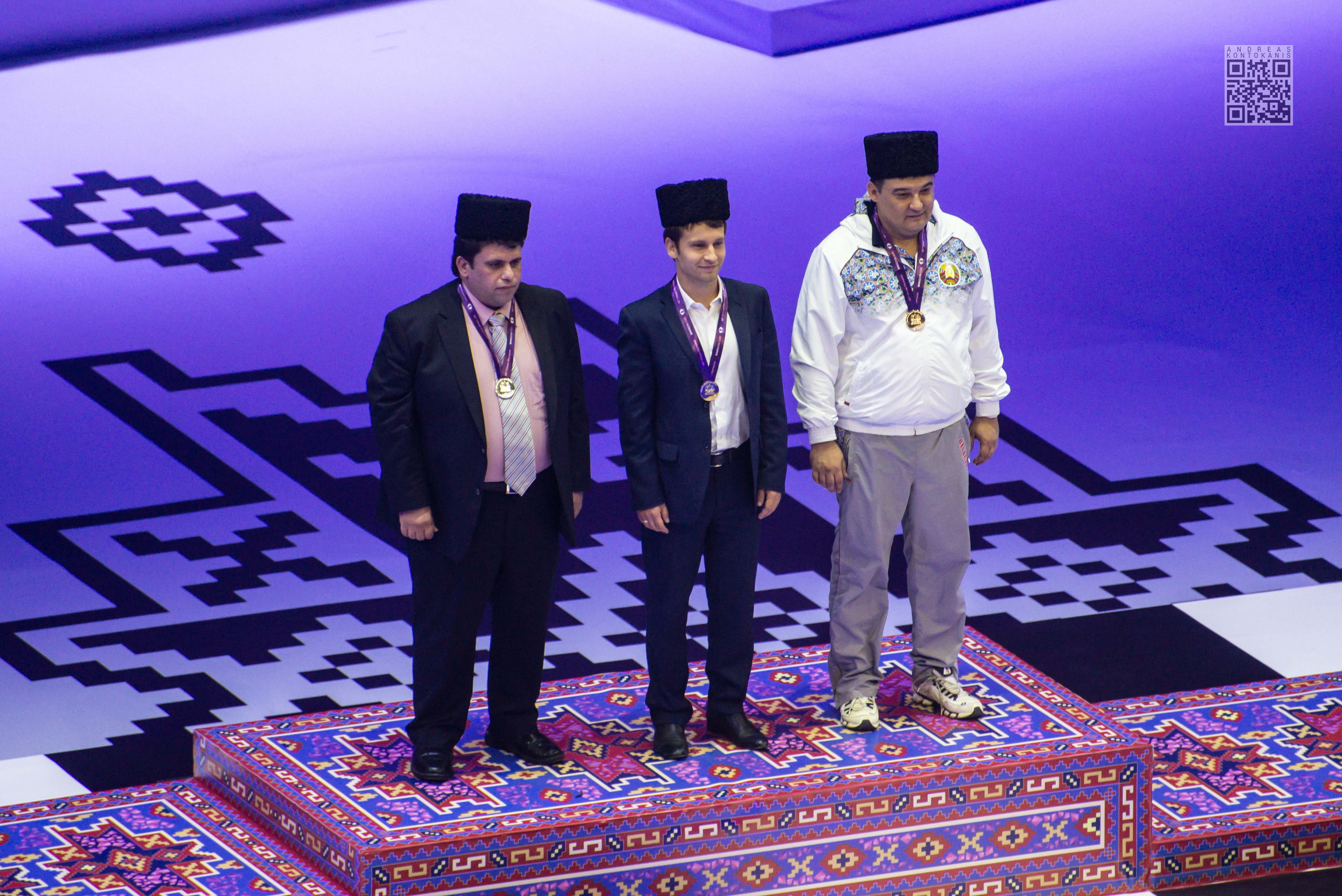 5th board medalists